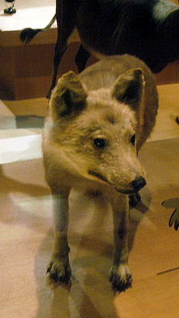 Honshū Wolf (Canis lupus hodophilax) in National Science Museum of Japan.